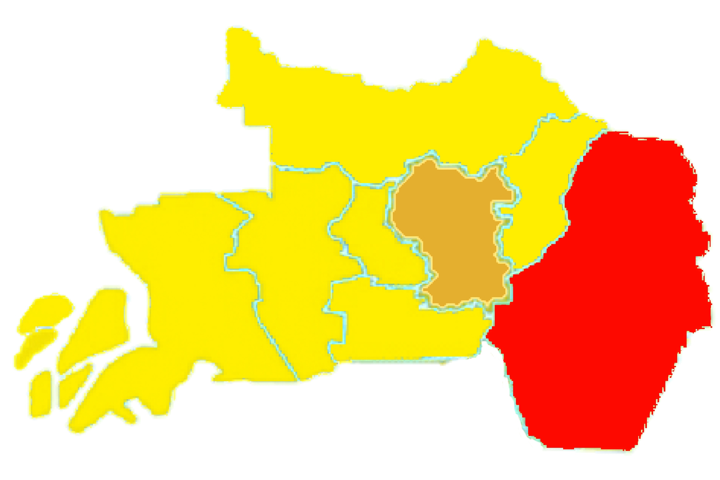 MPKj in Klang Valley,Orange color is Kuala Lumpur